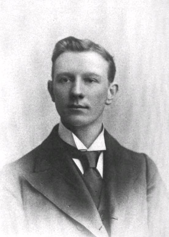 This portrait photograph of Hyrum M. Smith (1872-1918) was published in 1901 in the Juvenile Instructor periodical. Smith was a prominent leader in The Church of Jesus Christ of Latter-day Saints (Mormon or LDS Church).